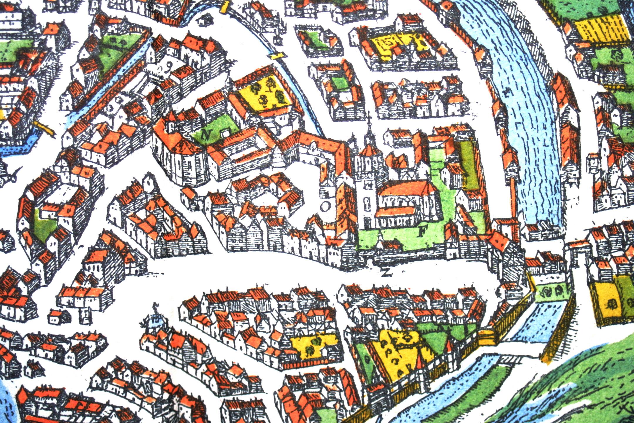 historical map of the German town of Bamberg by Georg Braun and Franz Hogenberg (between 1572 and 1618)